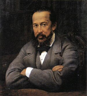 Aleksiey Uvarov (1825-1884)- russian archaeologist